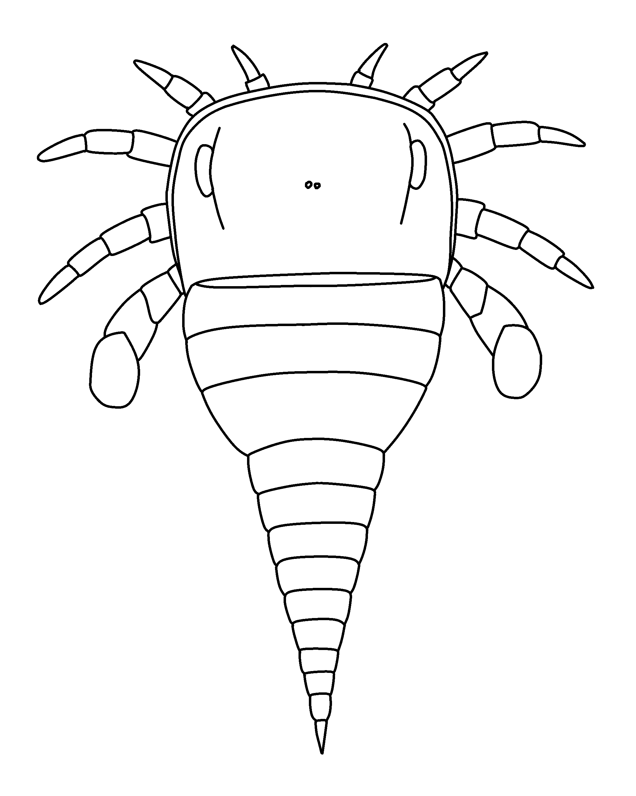 Restoration of the chasmataspidid species Forfarella mitchelli, based in Dunlop, Anderson & Braddy, 1999.